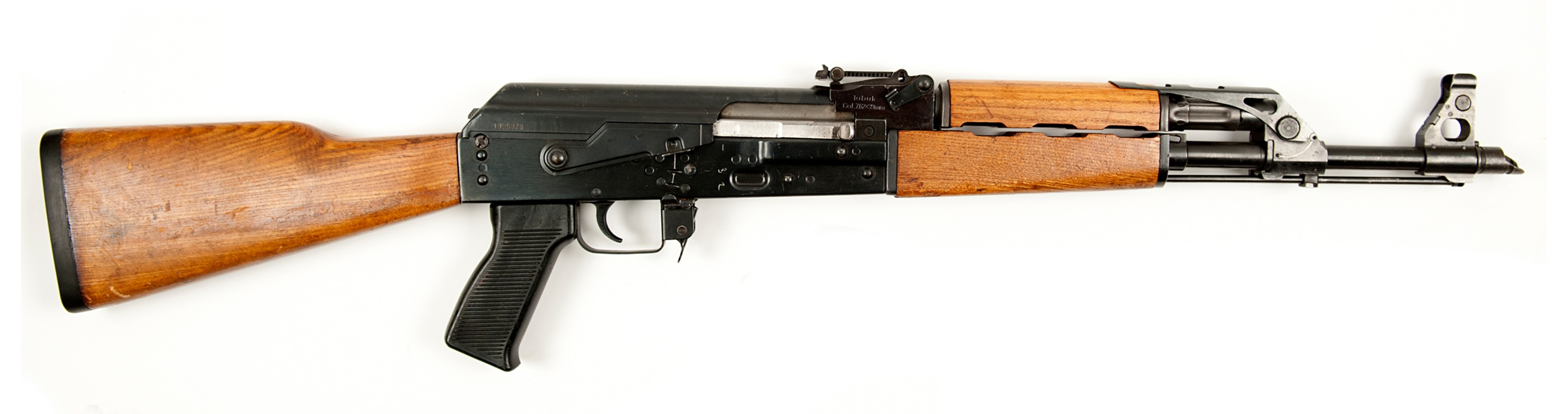 Picture of Tabuk (Iraq): Make: (Iraq) Model: Tabuk Caliber: 7.62x39mm